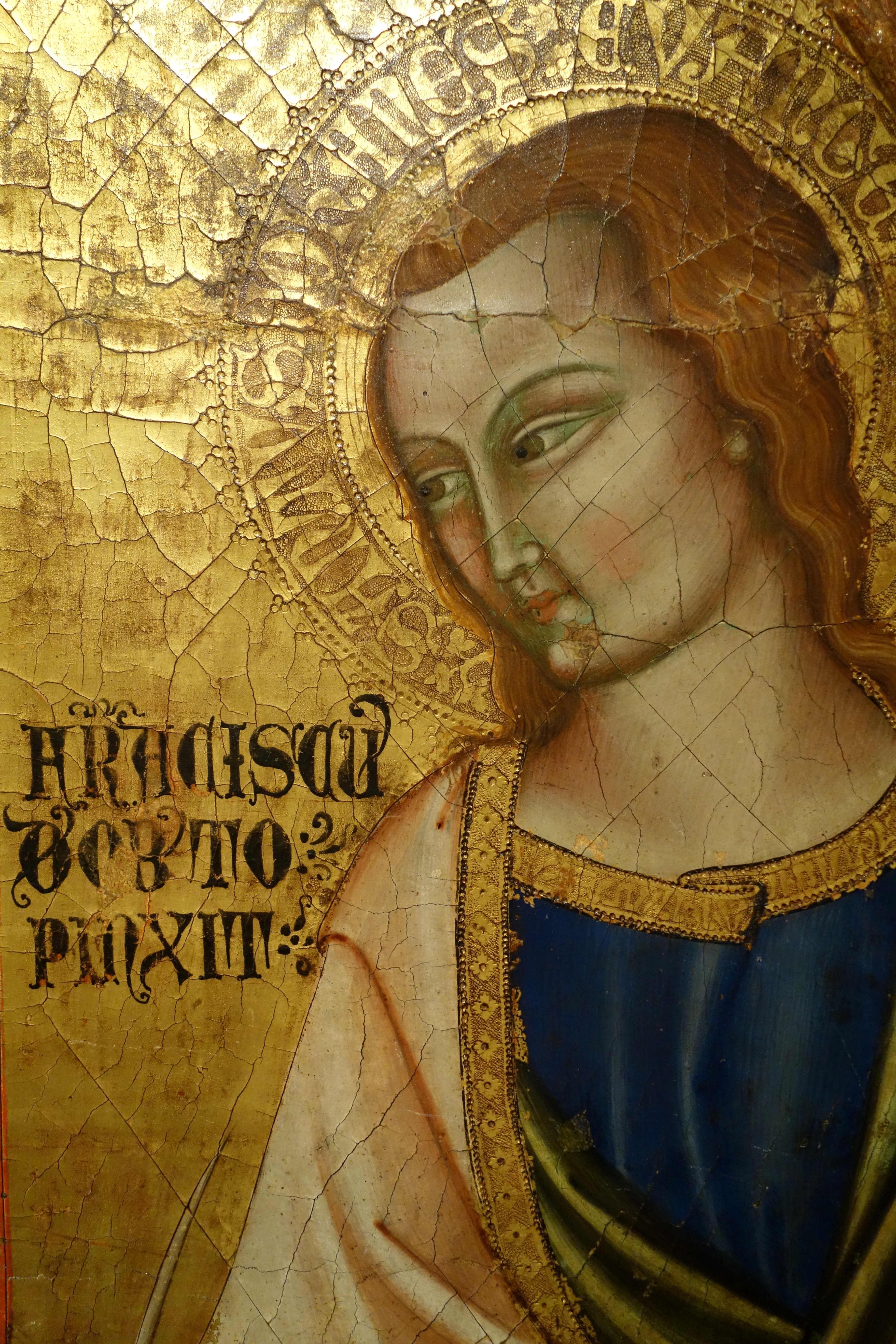 Exhibit in the Accademia Ligustica di Belle Arti, Genoa, Italy. This artwork is old enough so that it is in the public domain.